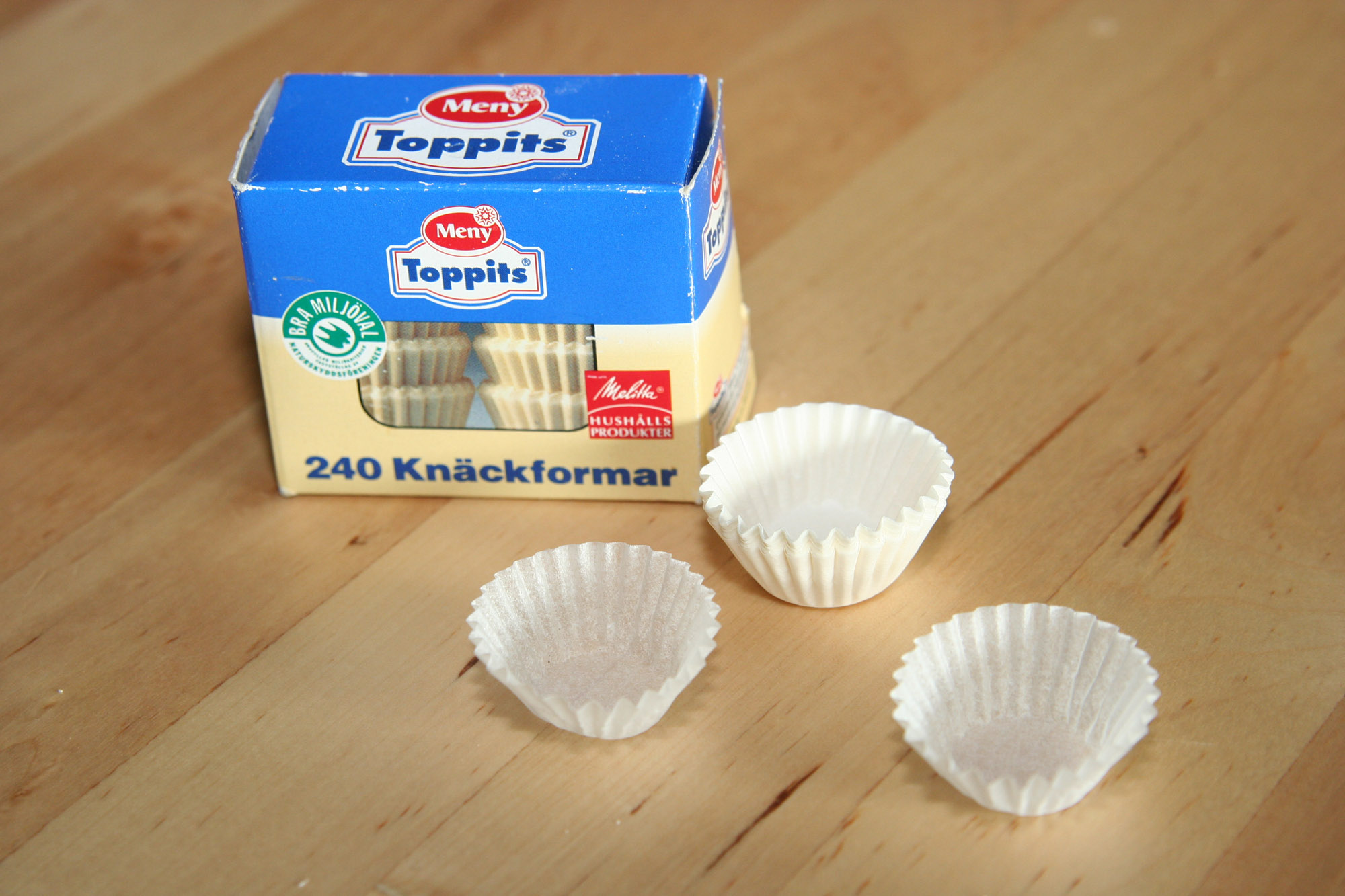 Toffee holders (paper candy cups?)